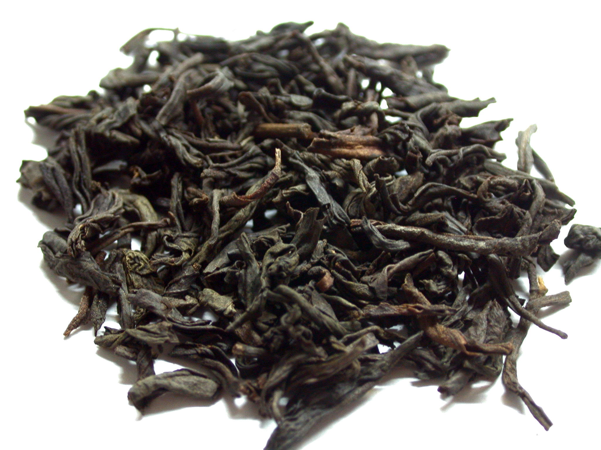 Jacksons of Piccadilly's Lapsang Souchong tea leaves.